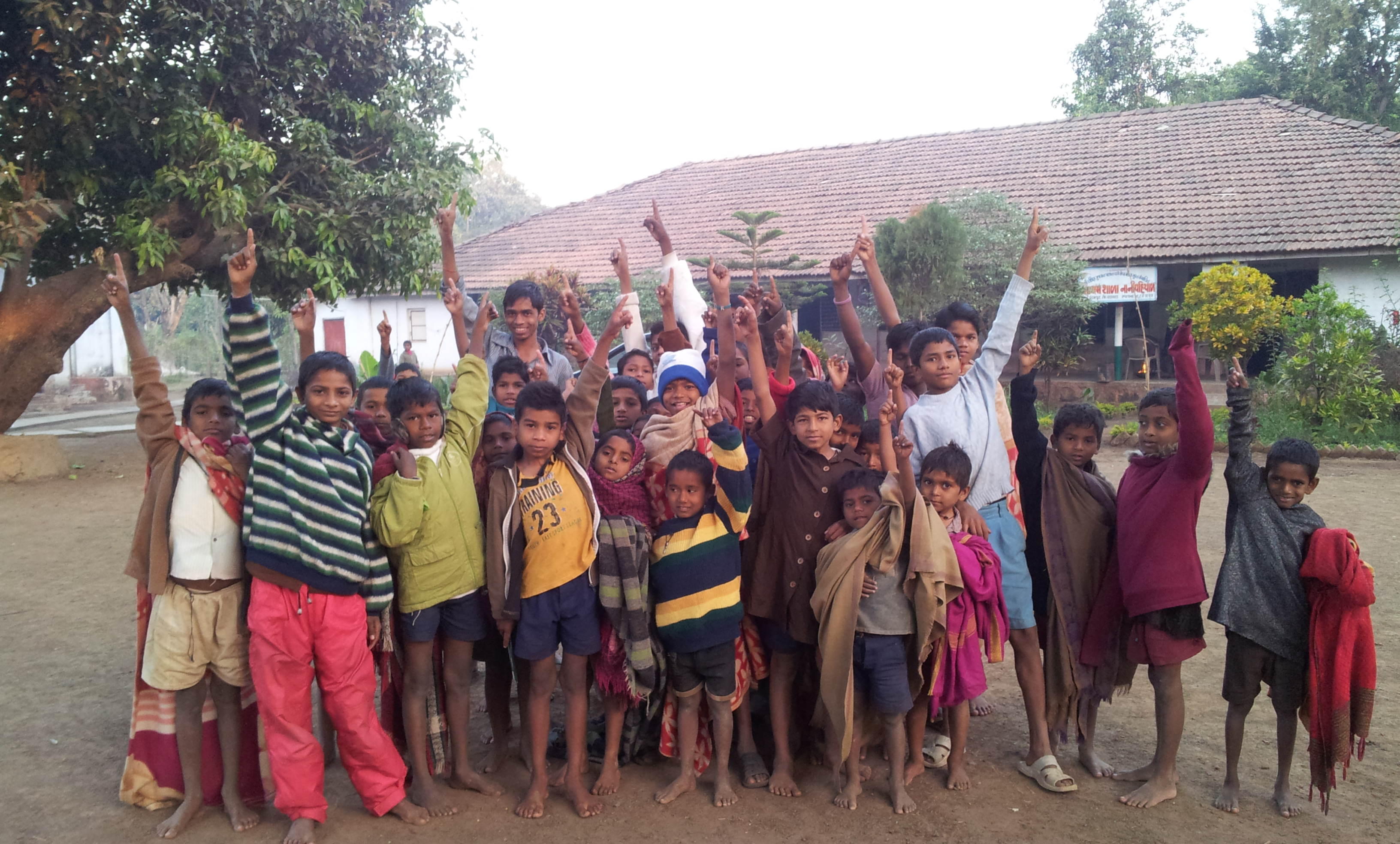 Nani Vahial Ashram Buid from Bricks and Local Soil with Teak Wood battens and truss. A classic green environment building in true sense.